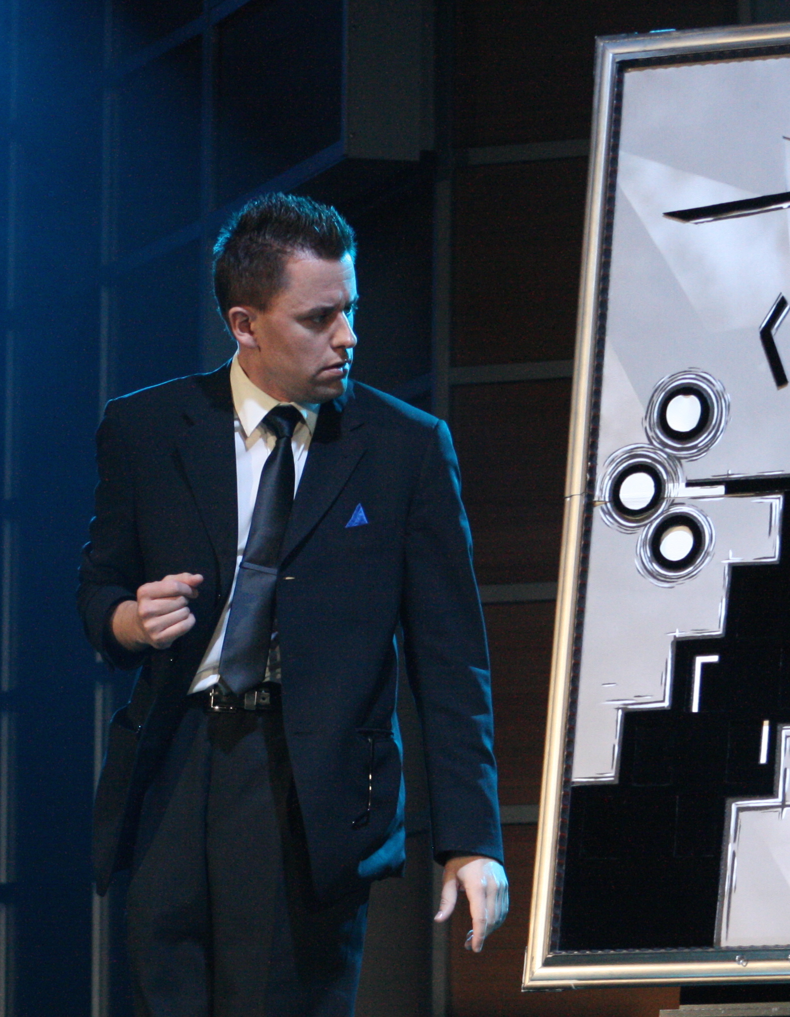 Arthur Trace performs "Postmodern Art"